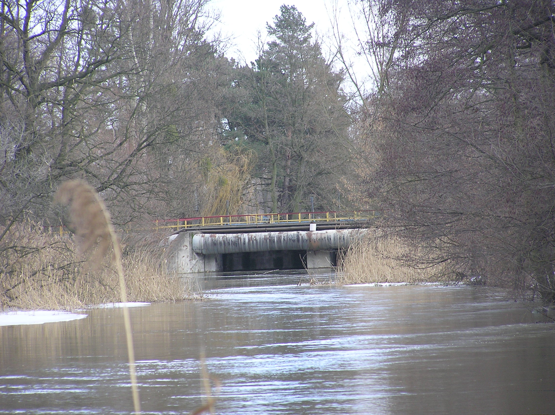 Barani Skok footbridge